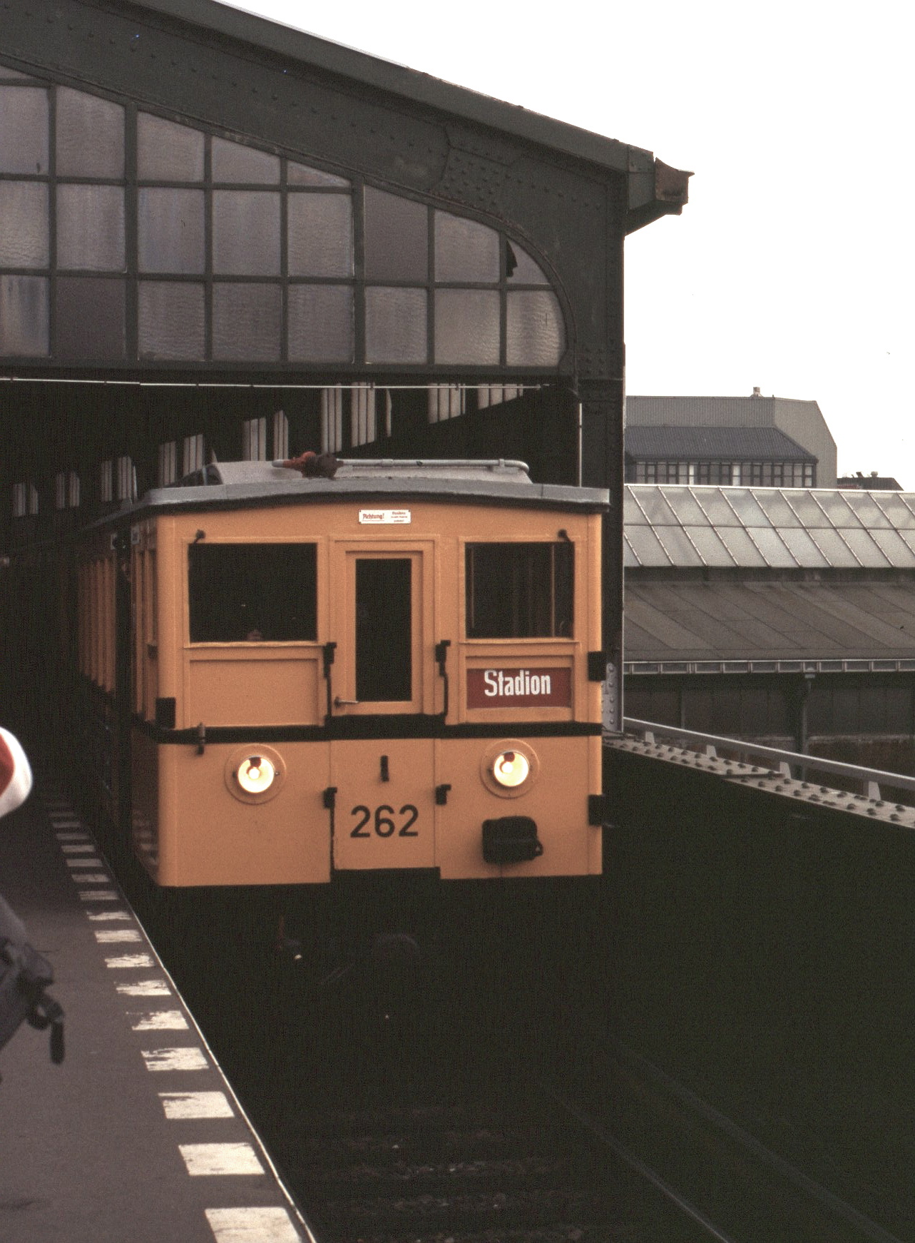 Iron carriage of AI class at Gleisdreieck U-Bahn station, Berlin